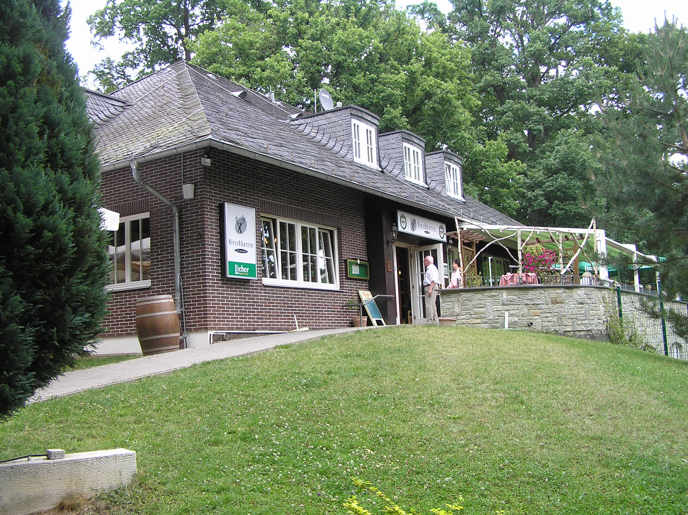 Restaurant Hirschgarten Dornholzhausen, Dornholzhausen, Bad Homburg, Germany